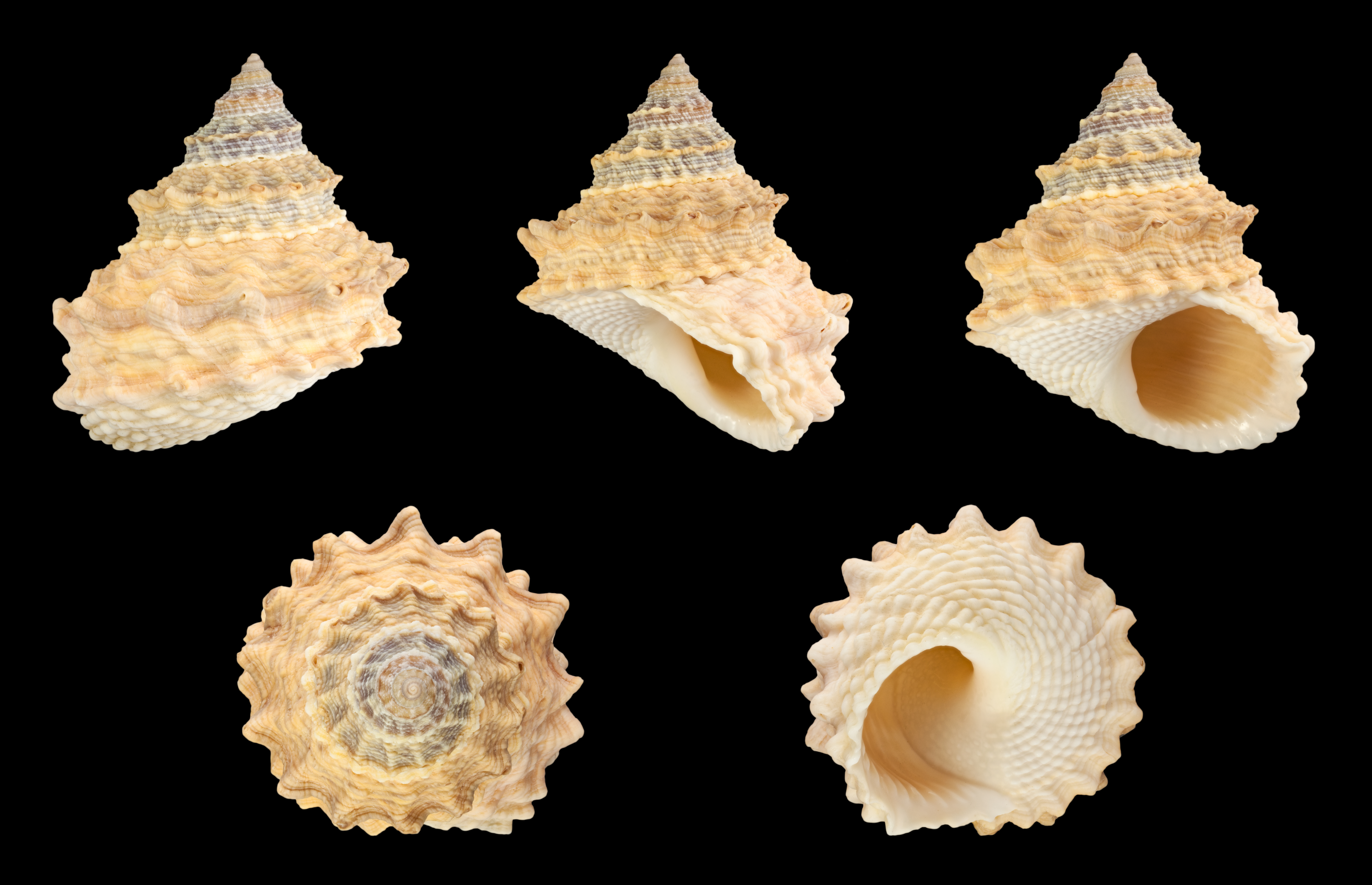 Tectarius pagodus (Linné, 1758), Pagoda Prickly Winkle; Height 5.2 cm; Originating from Indonesia. Shell of own collection, therefore not geocoded.